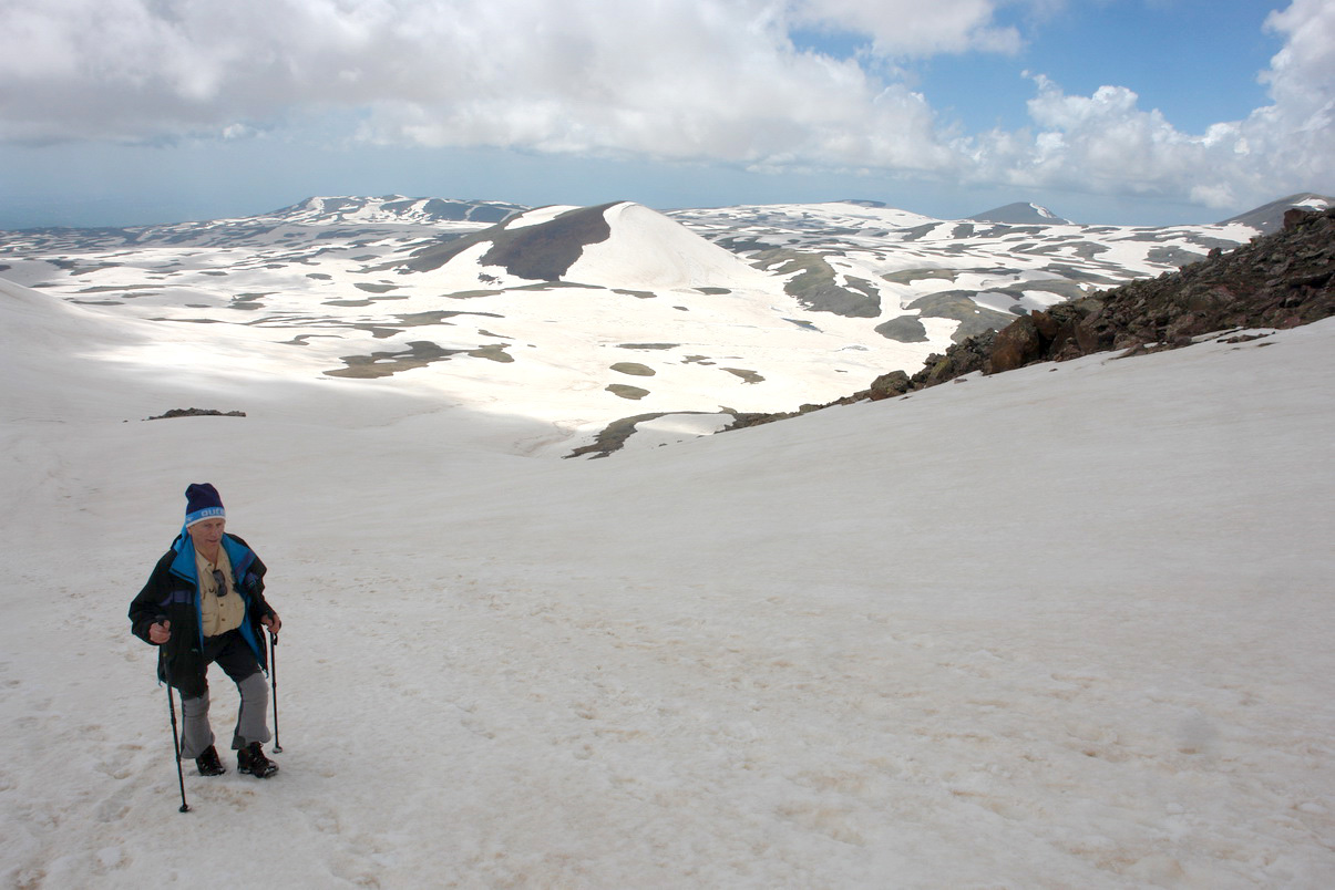 Neville Shulman climbing to the Summit of Mount Aragats (4,095 metres) in the Lesser Caucasus Mountains of Armenia in June 2011.